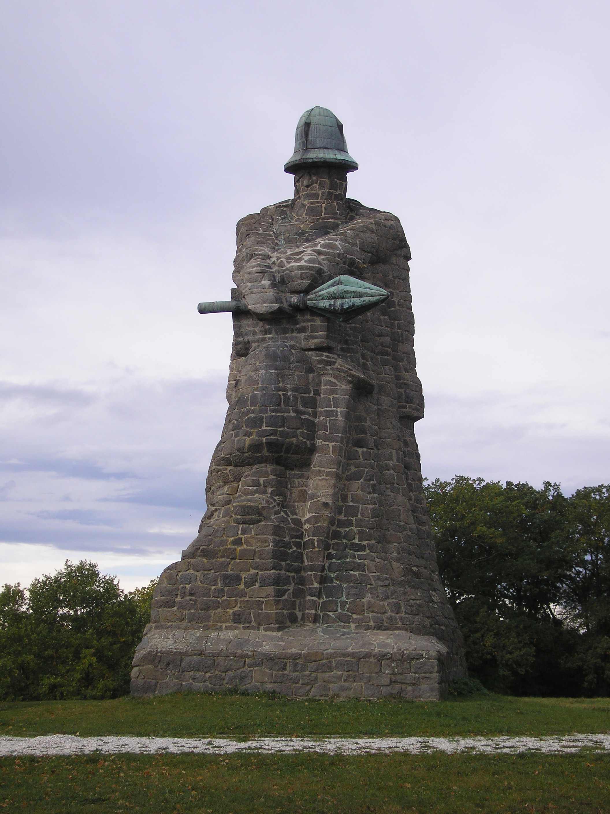 Jan Žižka memorial near Sudoměř, Czech Republic